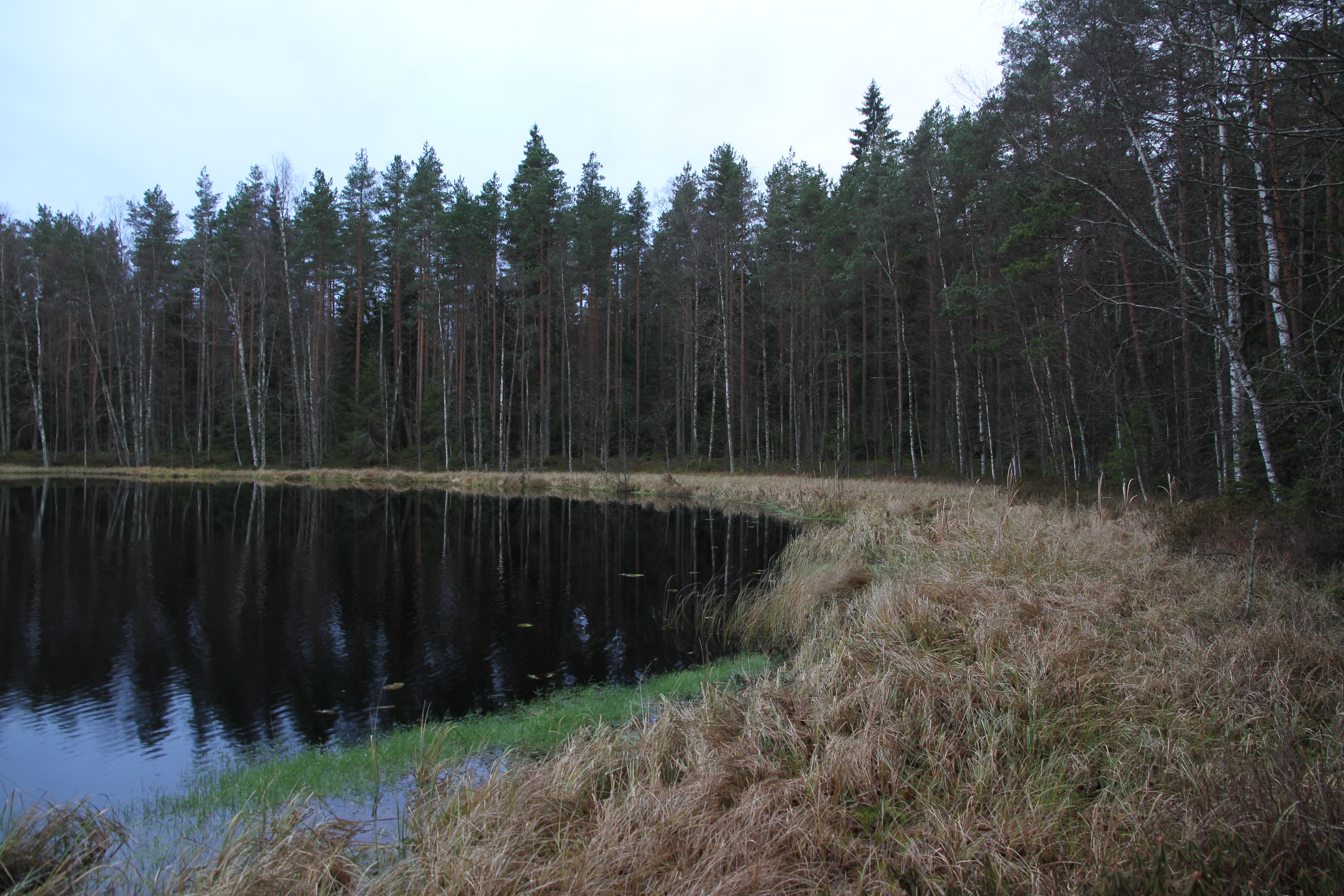 Liesjärvi National Park, Finland.